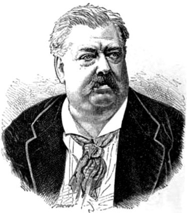 Hippolyte de Villemessant (1810-1879), French journalist.